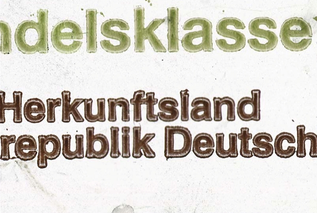 This example stands for letterpress and flexographic printing. An excess of ink is typically squeezed off the edges of prints